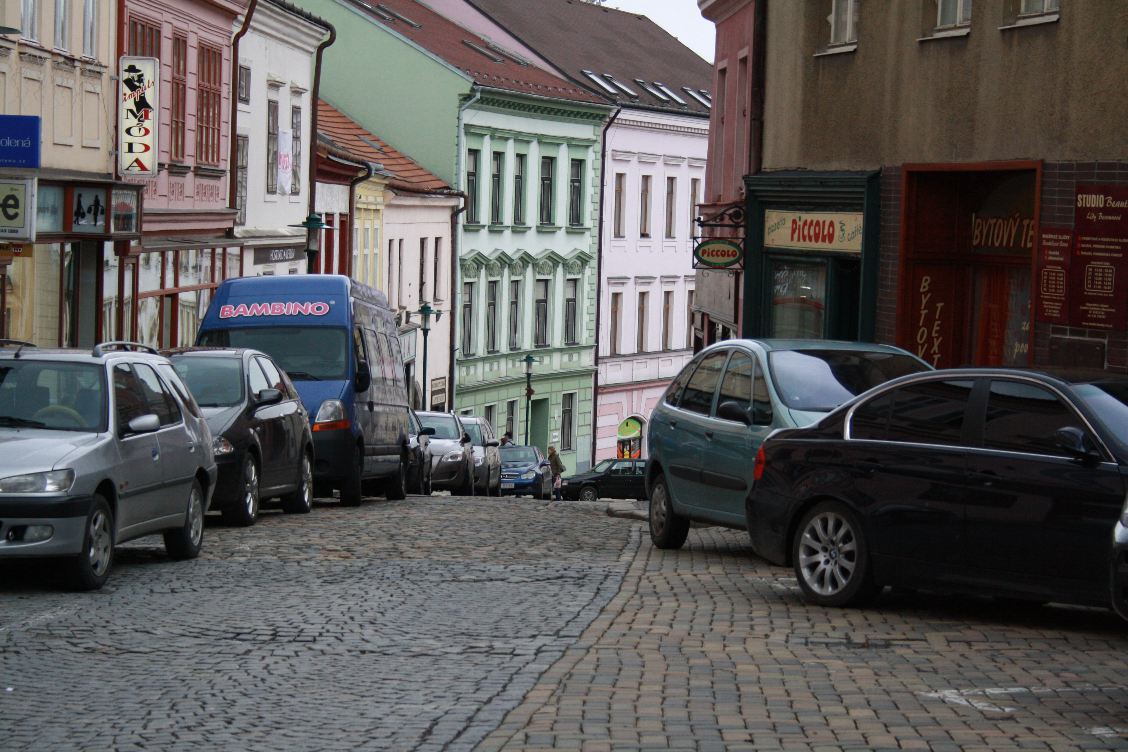 Hassek street in Třebíč, Czech Republic.